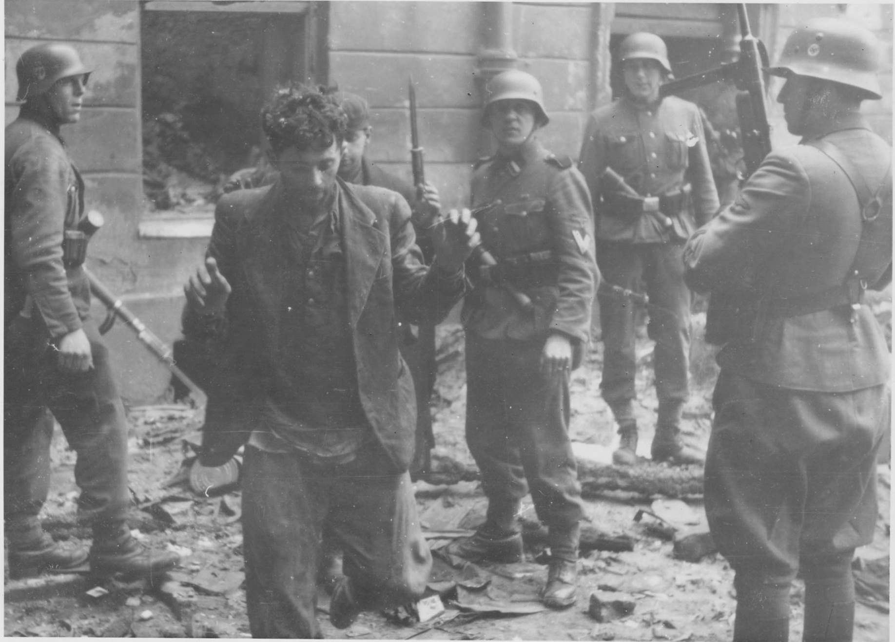 Warsaw Ghetto Uprising- SS assault troops capture two Jewish resistance fighters pulled from a bunker during the suppression of the Warsaw ghetto uprising.